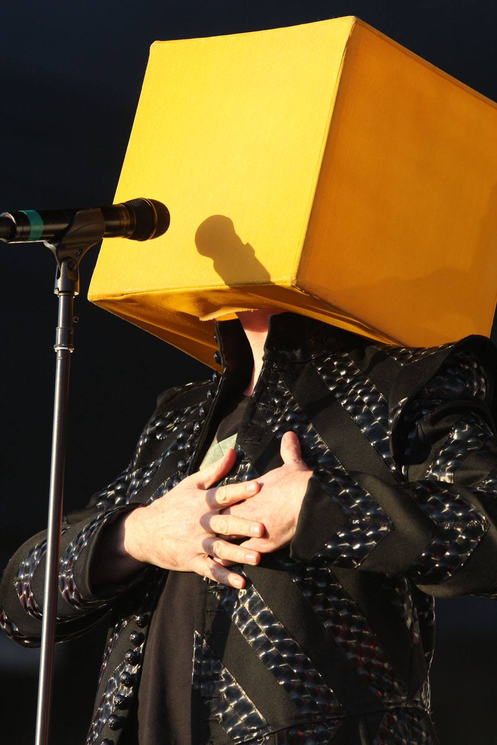 The Pet Shop Boys play the 2011 Sydney Resolution Concert.